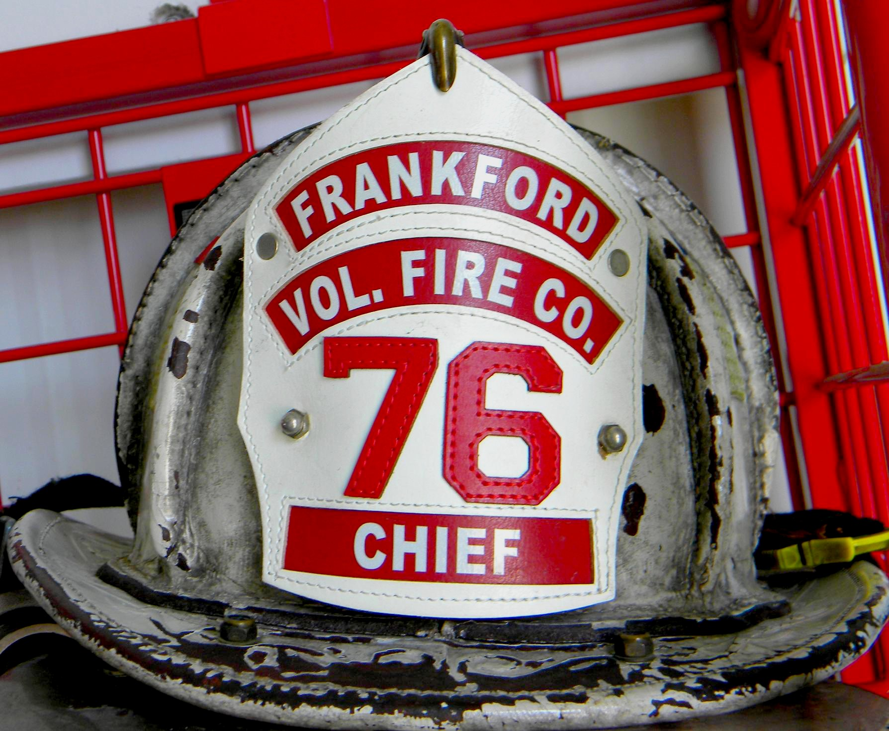 Station 76 Fire Chief helmet. Radio call sign= 76-15.